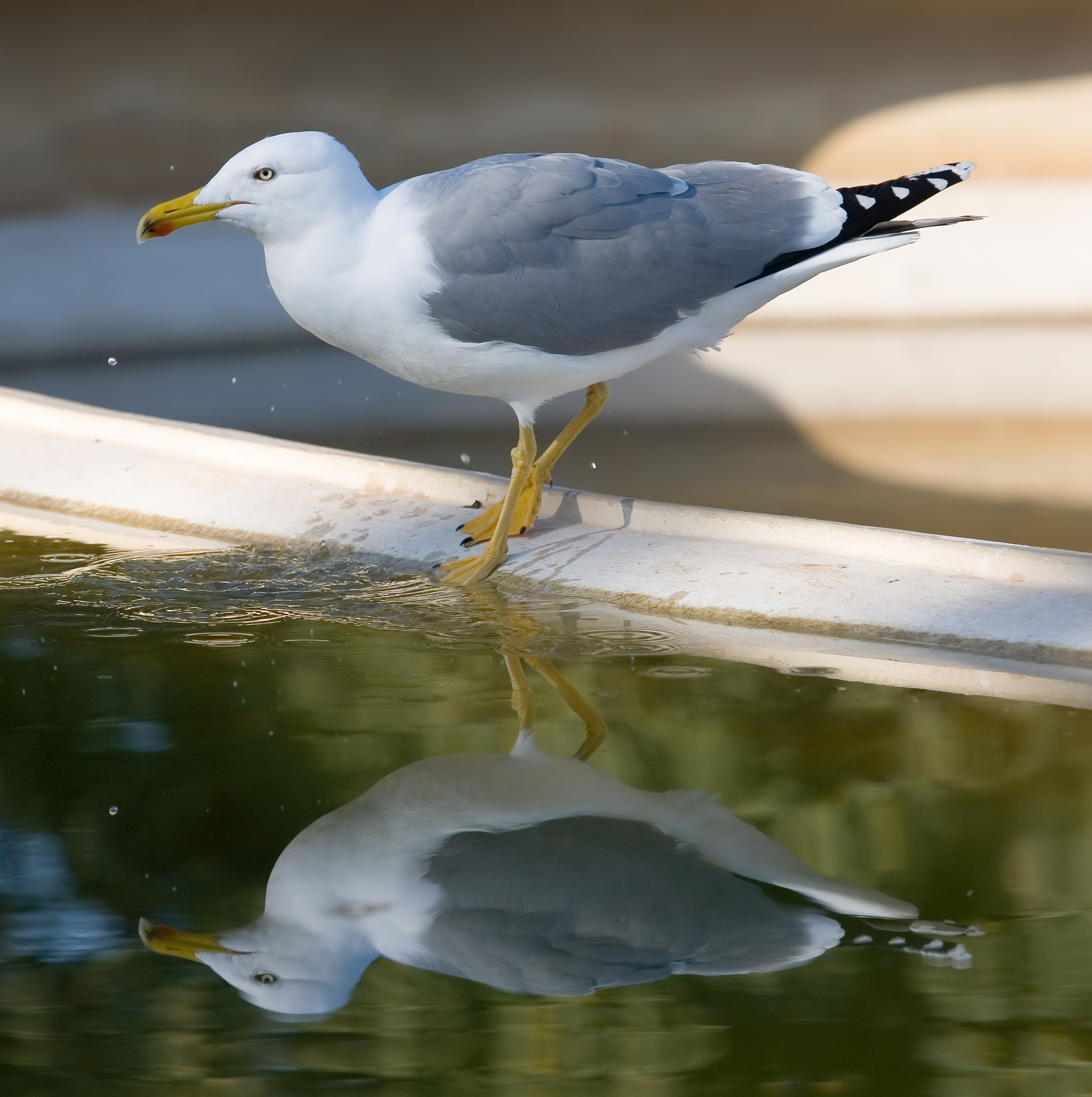 A Mediterranean Yellow-legged Gull (Larus michahellis) drinking from a fountain in Barcelona, Spain. Taken by myself with a Canon 5D and 70-200mm f/2.8L lens.